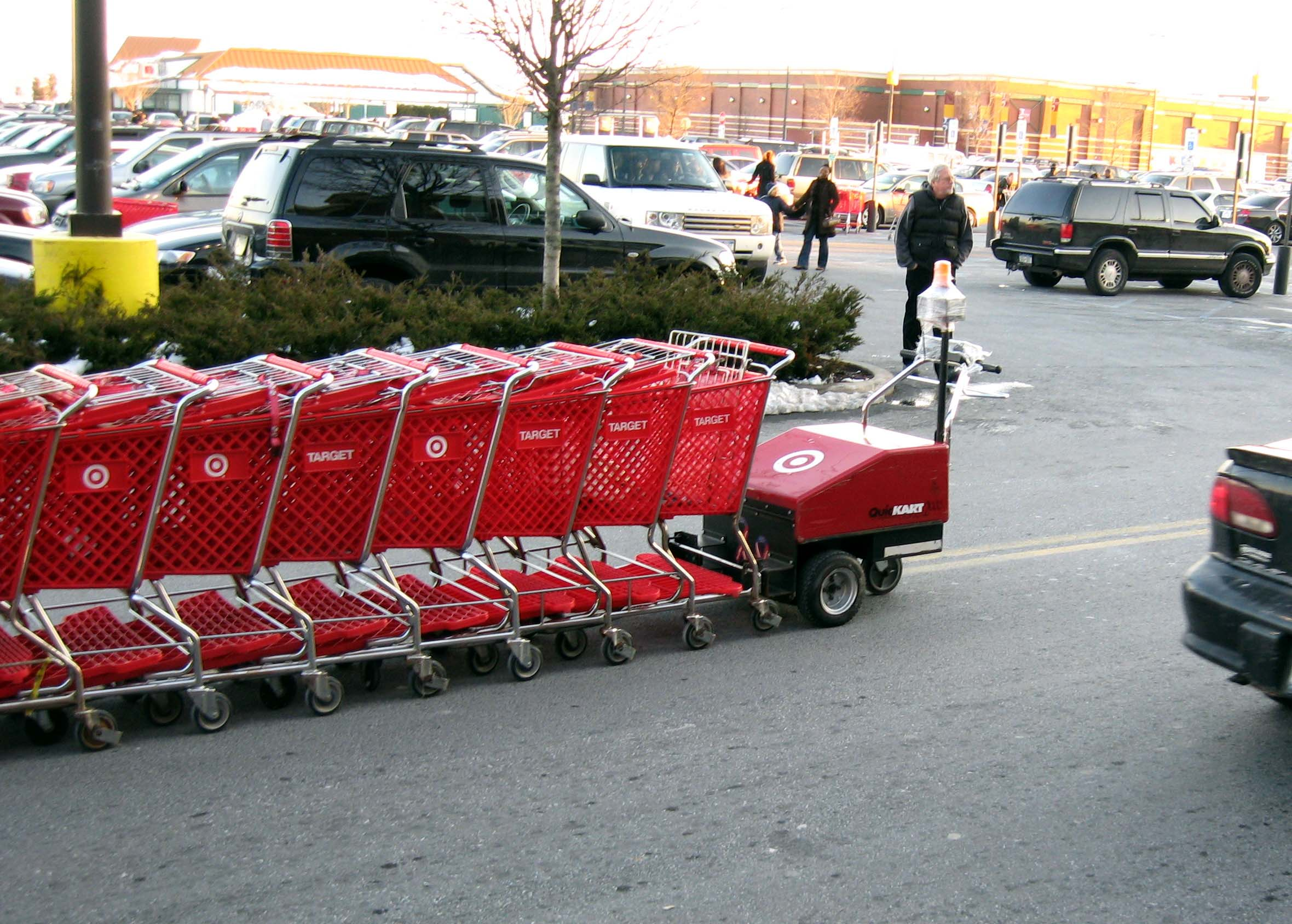 Unmanned electric truck pushes a row of nested Shopping carts from Parking lot in Gateway Shopping Center in East New York, Brooklyn to their Target store for reuse, on a cloudy winter afternoon shortly before sunset